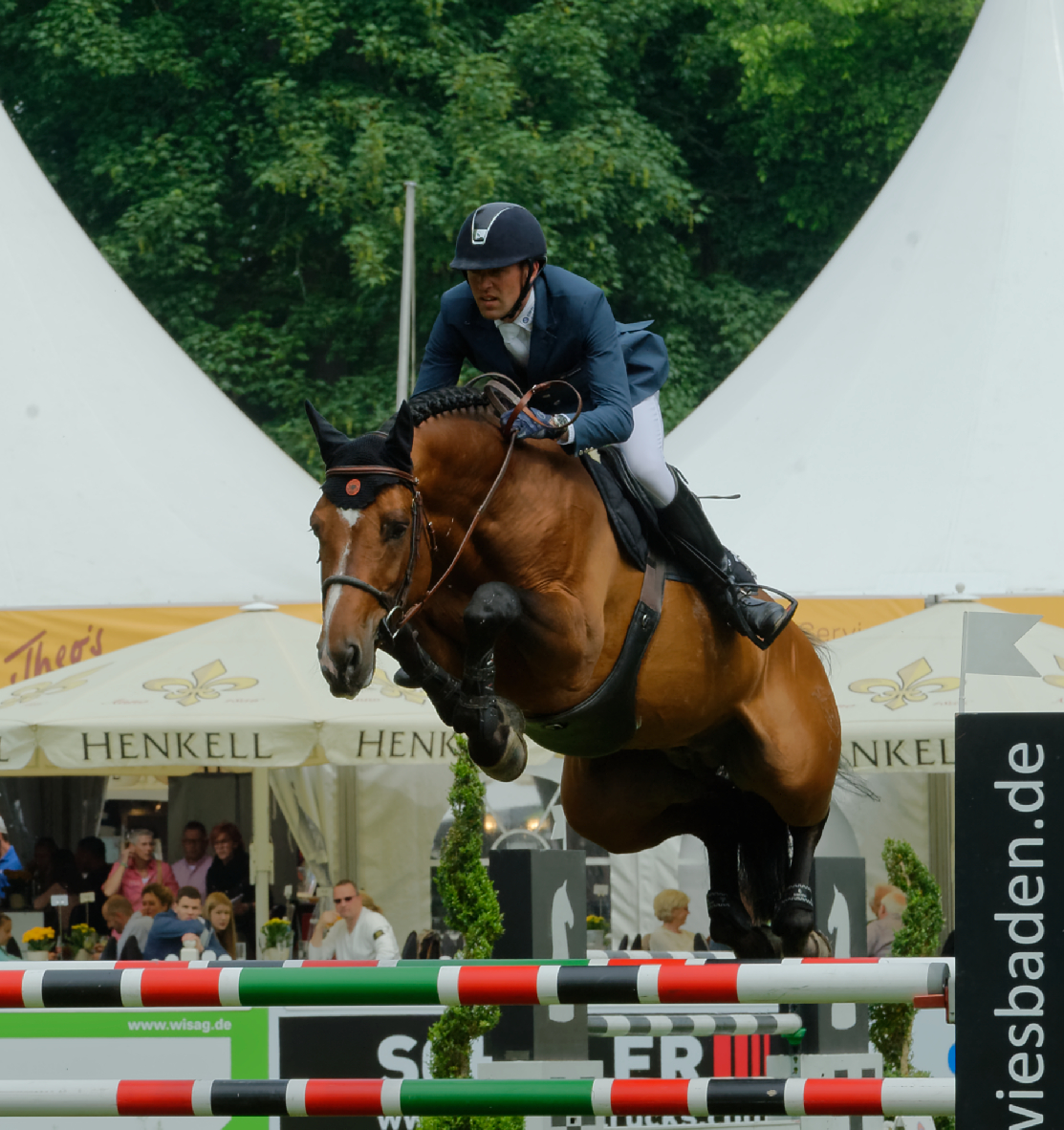 CSIYH* int. Springprüfung nach Strafpunkten und Zeit Internationales Pfingstturnier Wiesbaden 2015 The making of this document was supported by the Community-Budget of Wikimedia Germany.